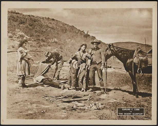 Countess Stoeffel aka Gretchen Wood and Edmund F. Cobb in the American film The Desert Scorpion (1920).